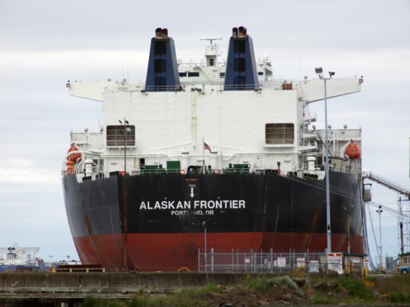 The oil tanker the Alaskan Frontier anchored near Port Angeles, Wa. in June, 2008.